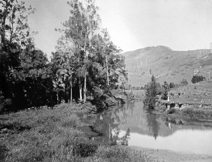 Scene on Upper Currumbin Creek. (The original photograph caption makes reference to Upper Currumbin Creek.)